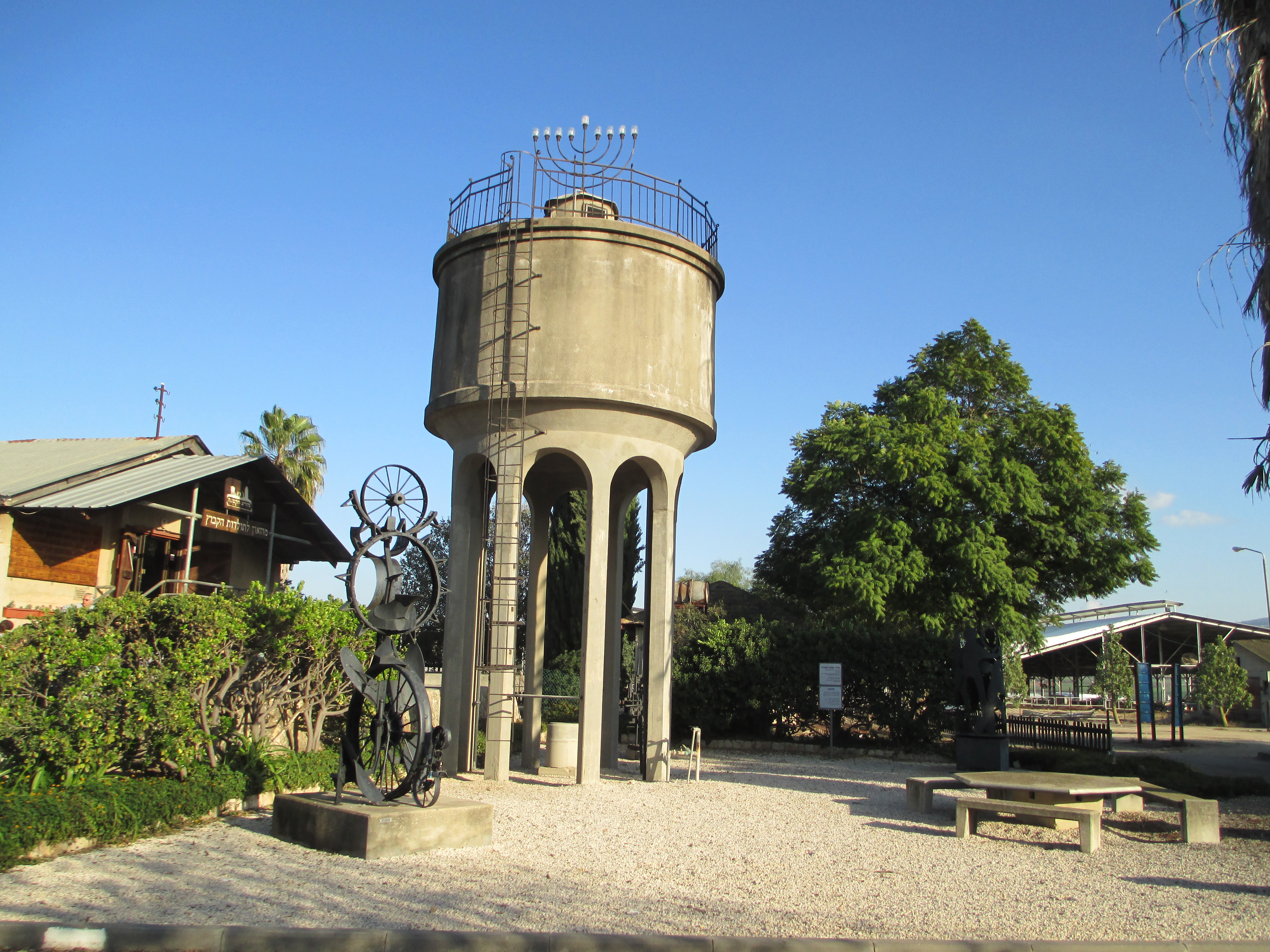 Old water tower in kibbutz Mizra